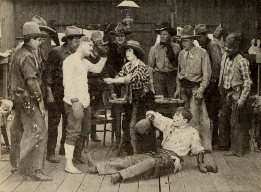 Still from the American film Rowdy Ann (1919) with Al Haynes (white shirt), Fay Tincher, and Harry Depp (on ground), on page 62 of the June 14, 1919 Exhibitors Herald.